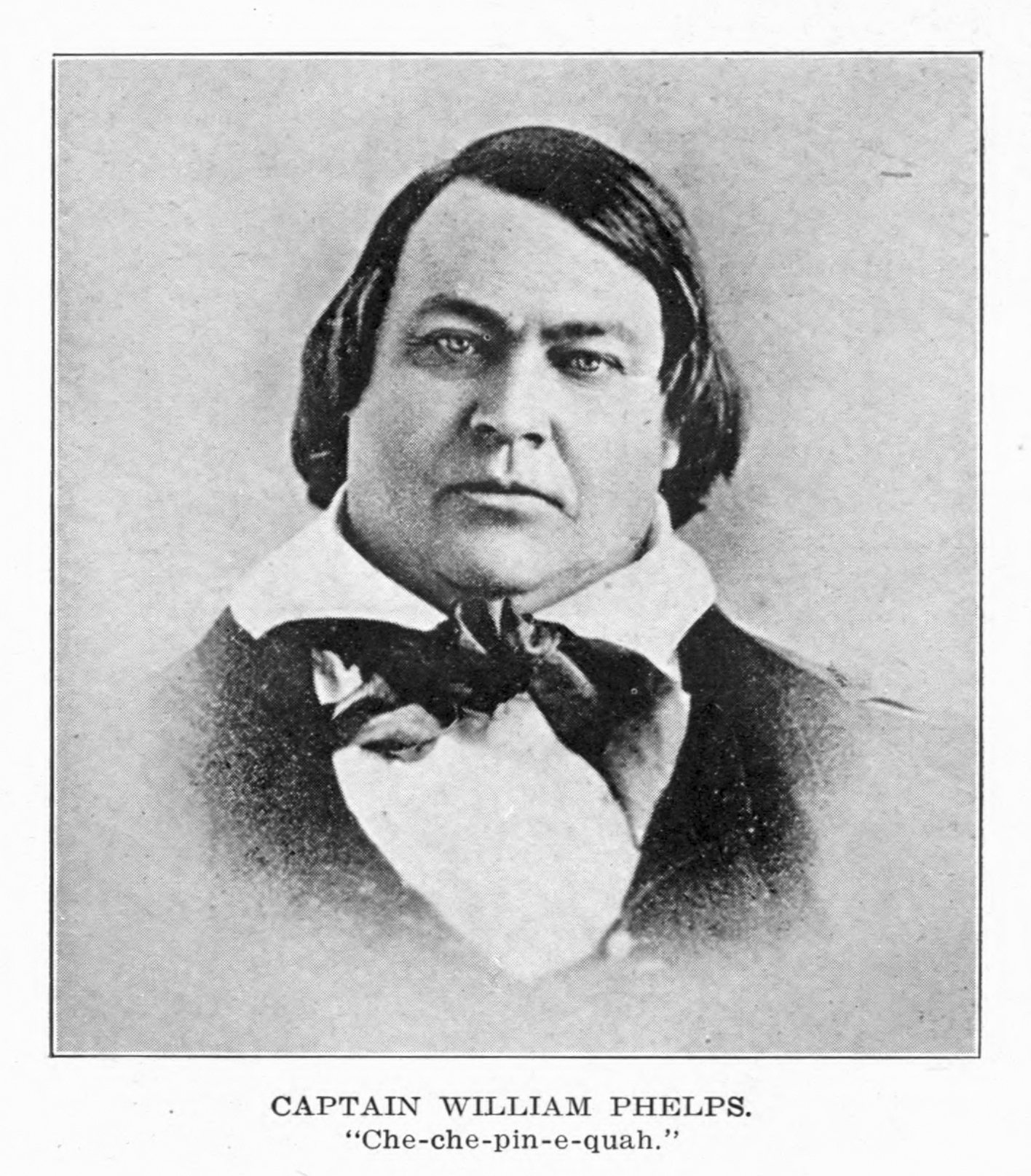 Portrait of Captain William Phelps, Illinois fur trader and merchant, son of Judge Stephen Phelps of Lewistown, Illinois.